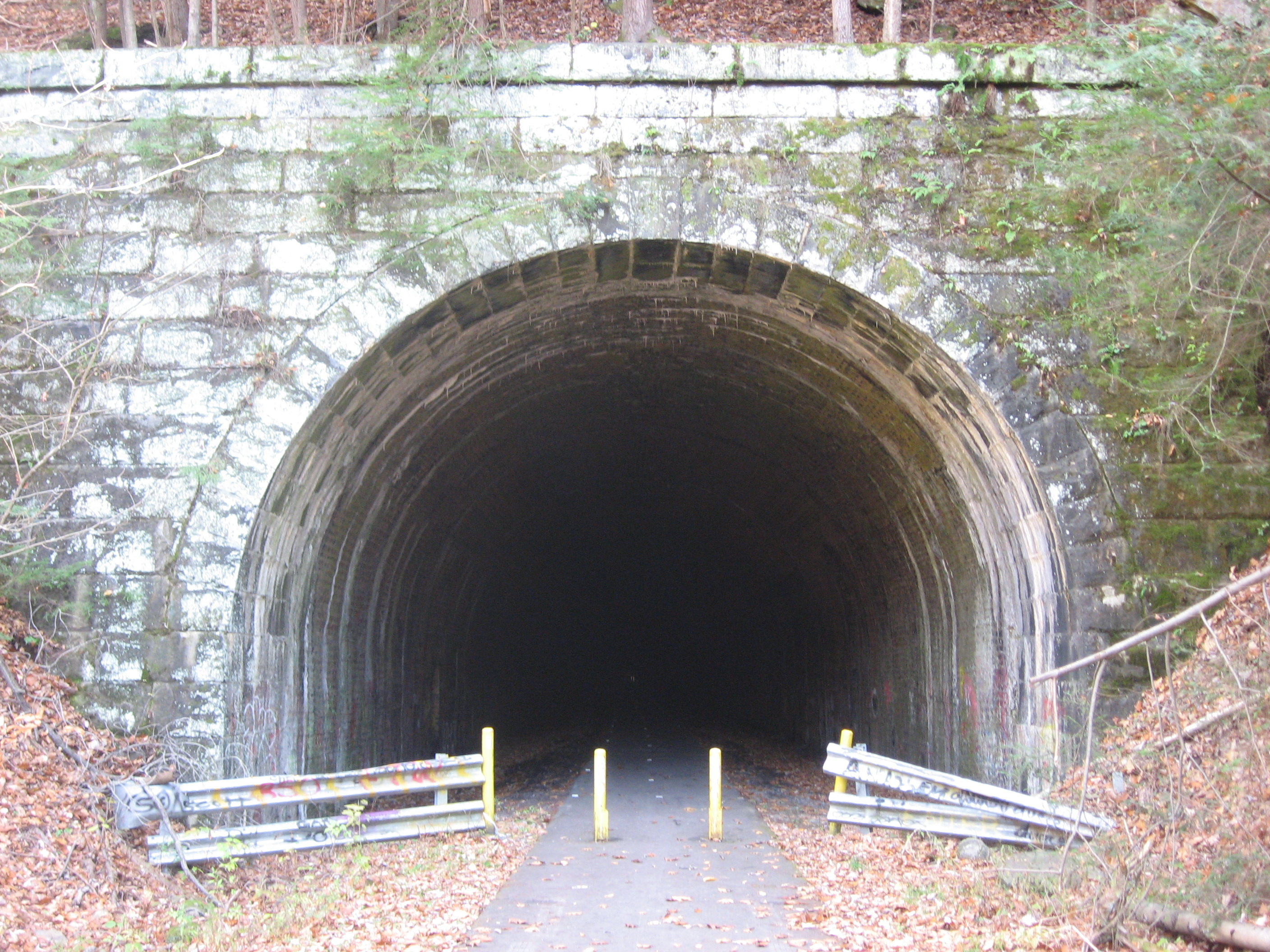 Western portal of the Rockland Tunnel, which carries the Allegheny River Trail through a hillside in rural Rockland Township, Venango County, Pennsylvania, United States. Completed in 1915, it formerly served a Pennsylvania Railroad line, but it has since been converted into a rail trail.